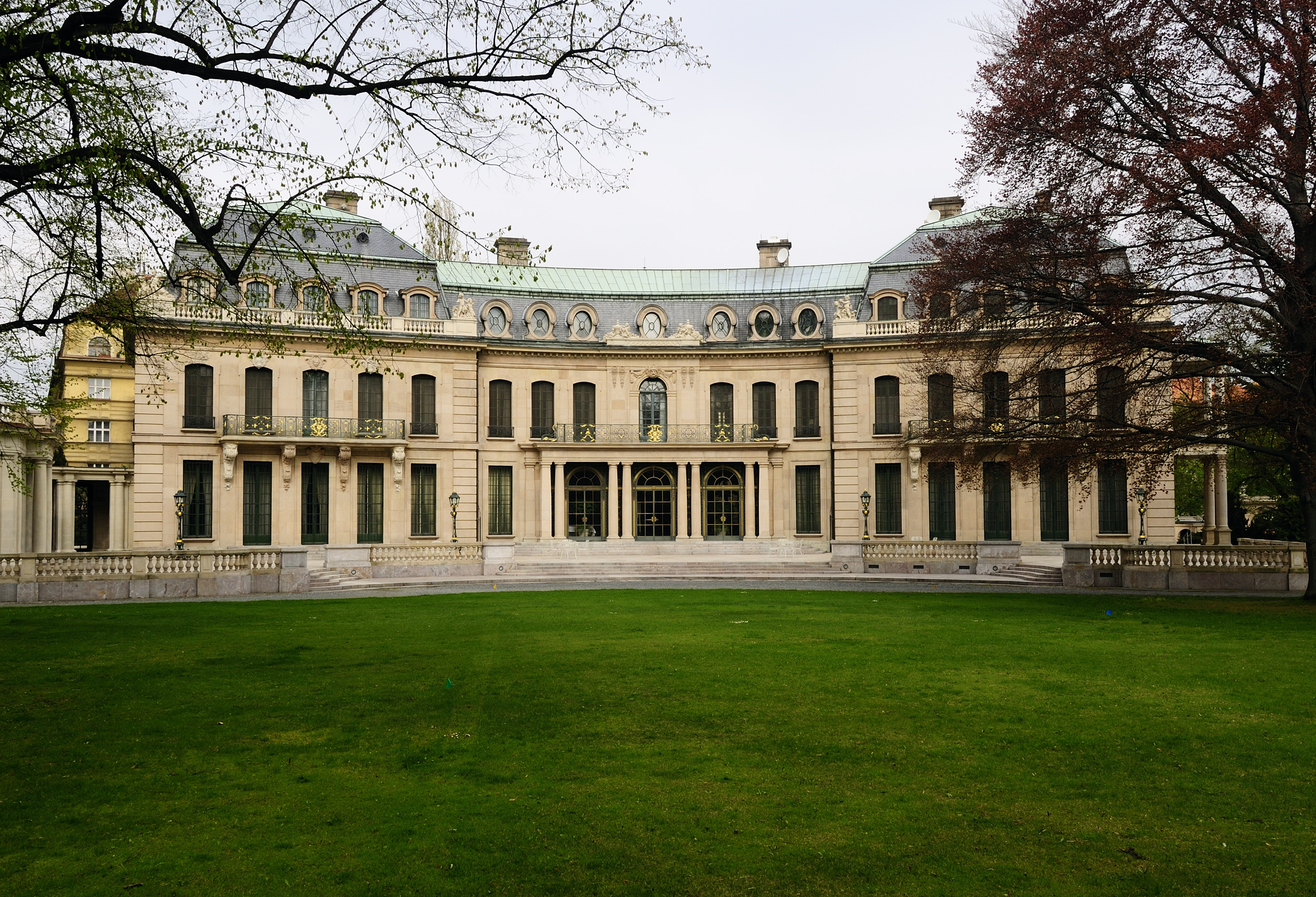 The U.S. Ambassador's Residence in Prague (Villa Petschek), the Czech Republic. The Neo-Baroque residence of the United States Ambassador in Prague was designed and built between 1924 and 1930 by Otto Petschek, a wealthy banker and industrialist.